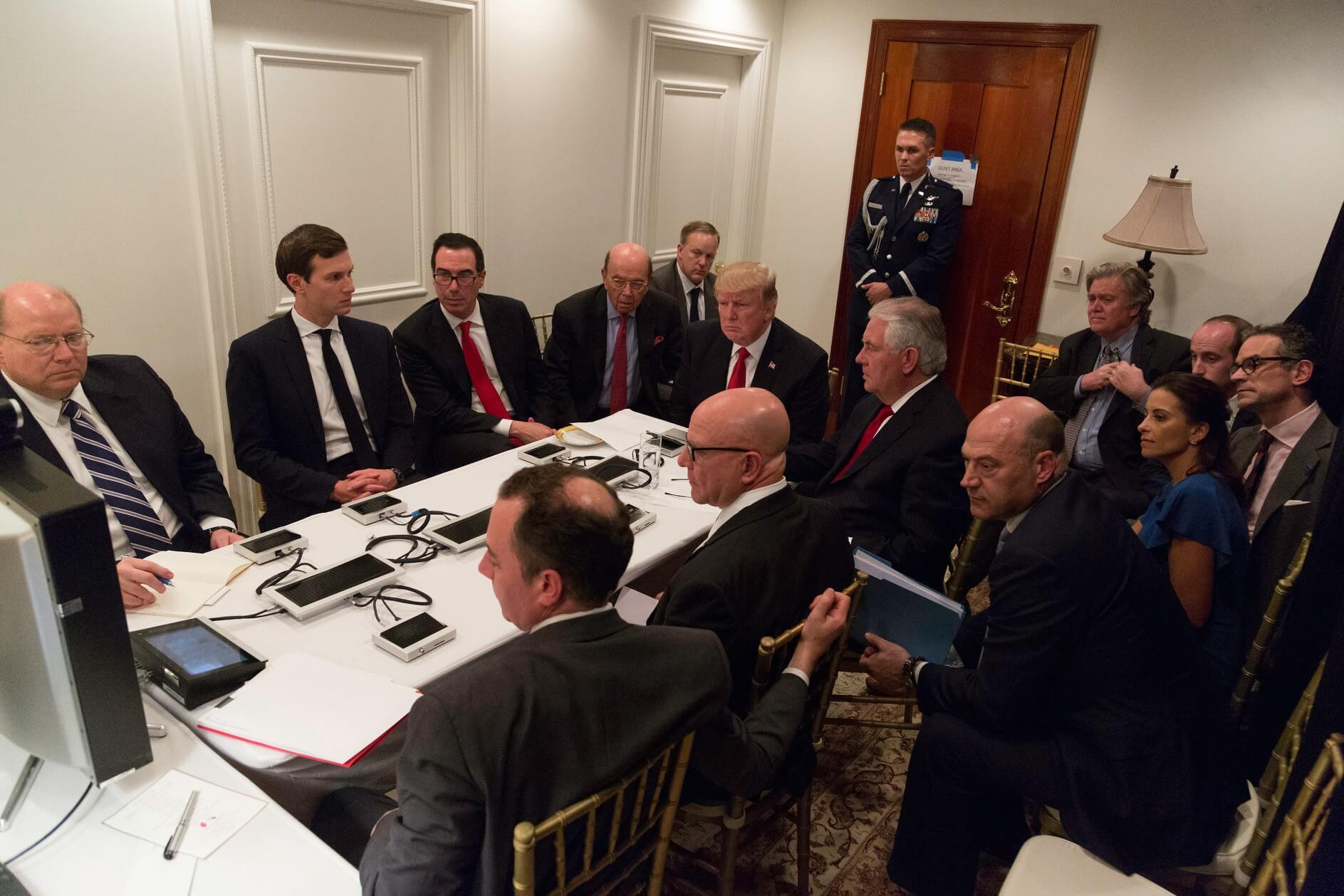 President Donald Trump receives a briefing on a military strike on Syria from his National Security team, including a video teleconference with Secretary of Defense, Gen. James Mattis, and Chairman of the Joint Chiefs of Staff, Gen. Joseph F. Dunford, on Thursday April 6, 2017, in a secured location at Mar-a-Lago in West Palm Beach, Florida.